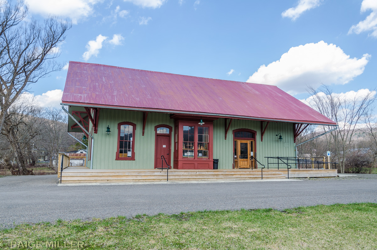 Former Lehigh Valley Railroad station in Truxton, NY, commonly known as Truxton Depot